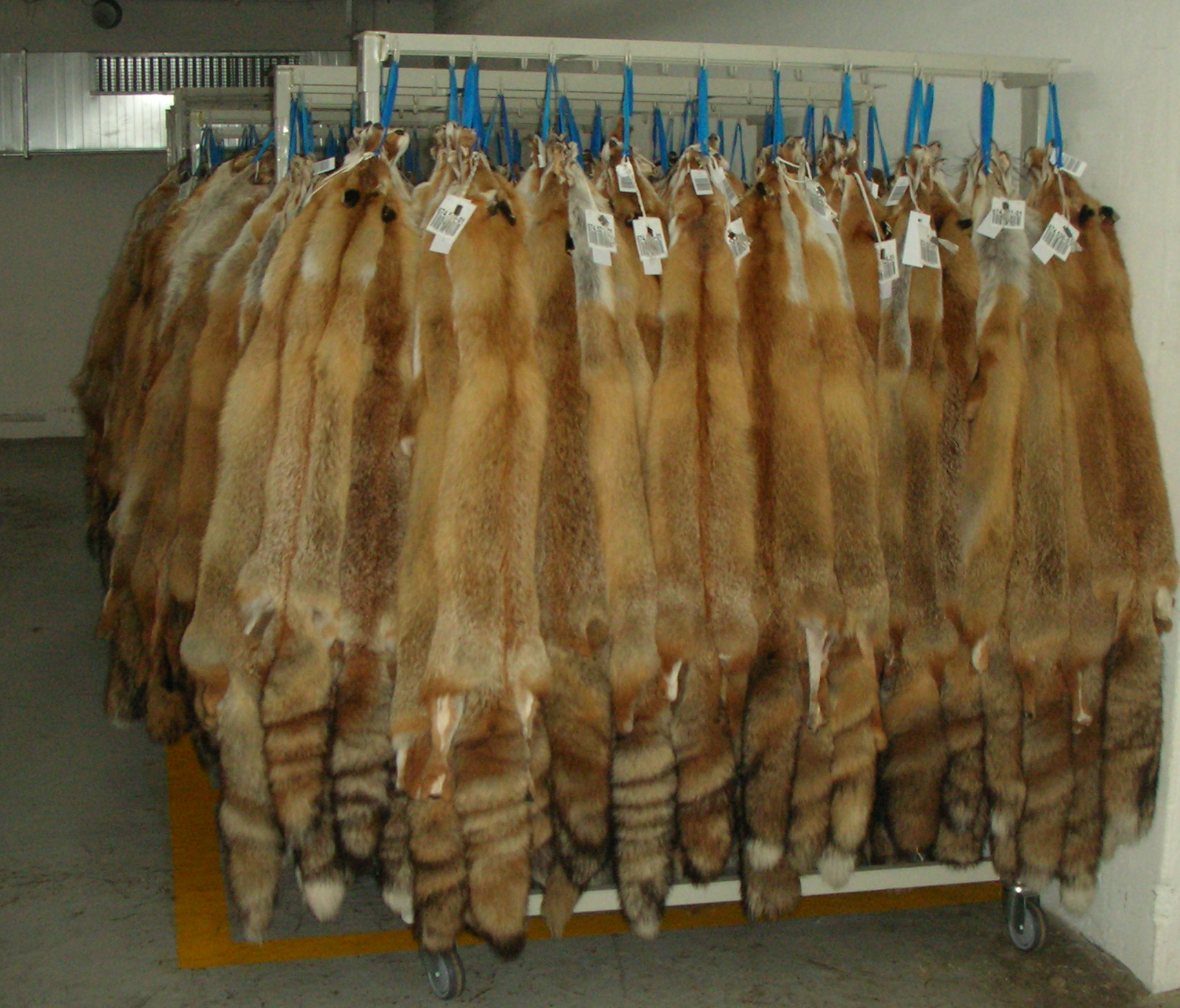 Red fox pelts in the warehouse of the auction house Kopenhagen Fur.